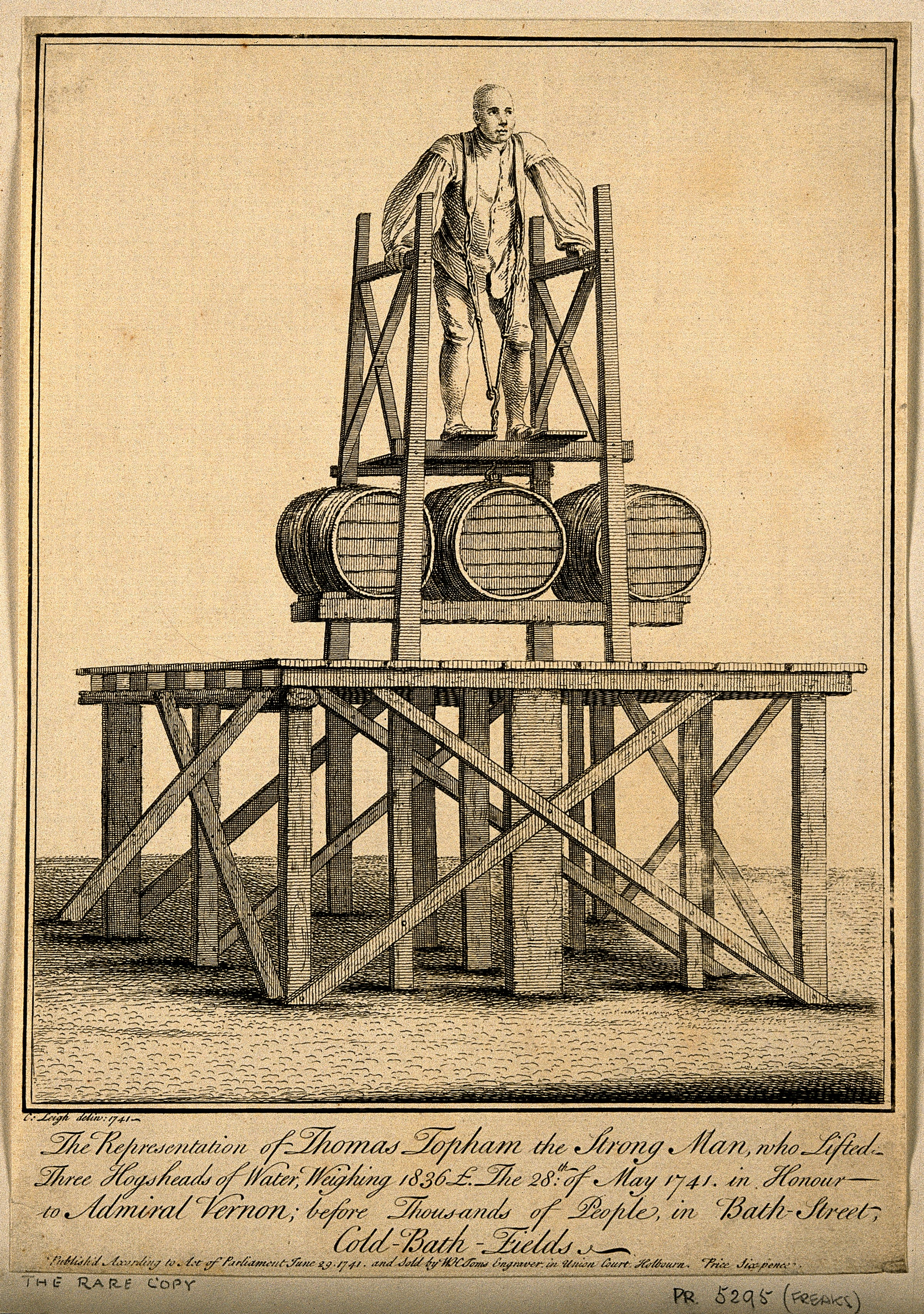 Thomas Topham, lifting 1836 lbs. Etching by C. Leigh, 1741, after W.H. Toms. Iconographic Collections Keywords: Thomas Topham; portrait prints; William Henry Toms; C. Leigh; strong men; topman, thomas, 1710?-1749; etchings